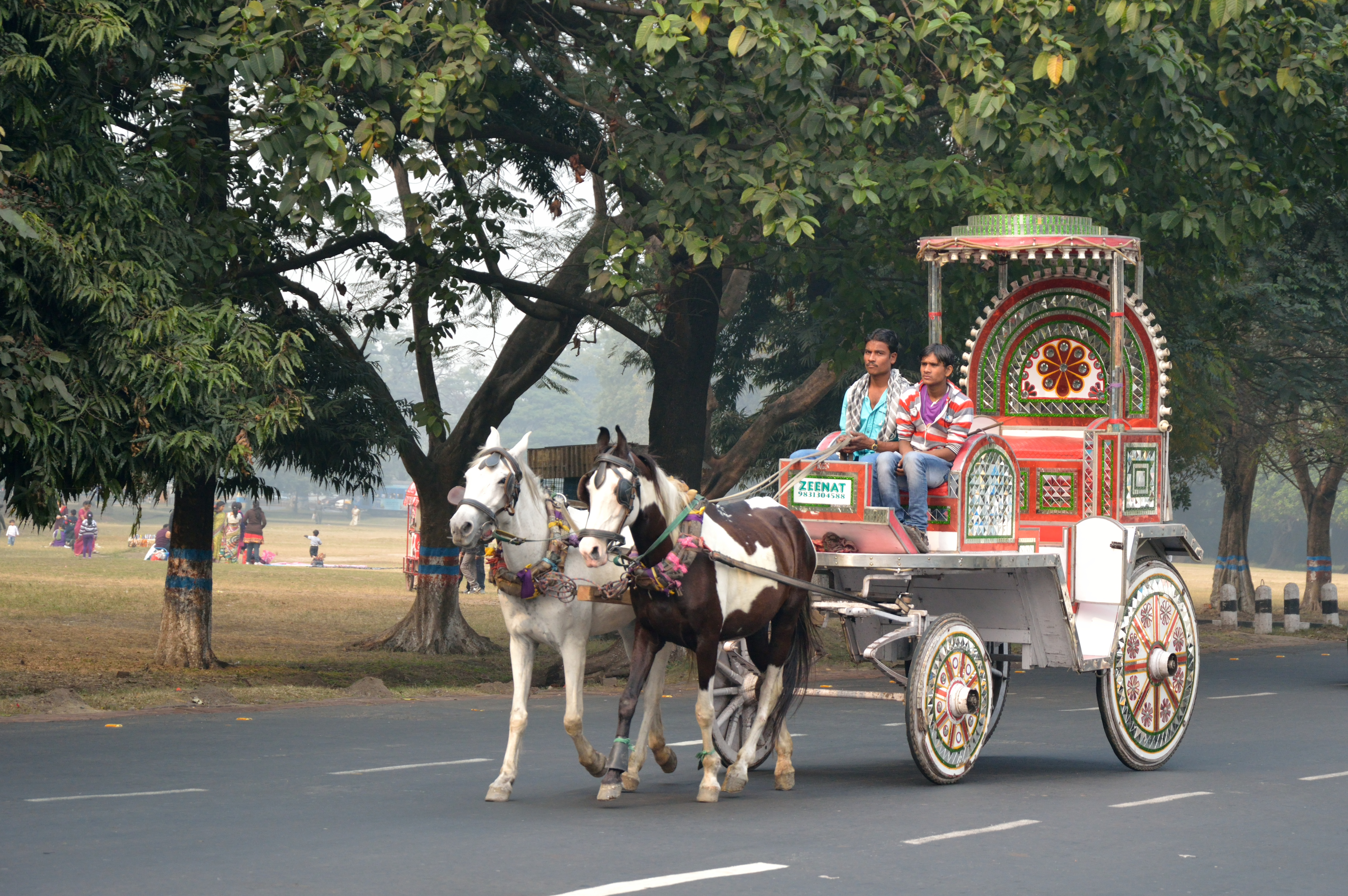 Photographs in Kolkata.